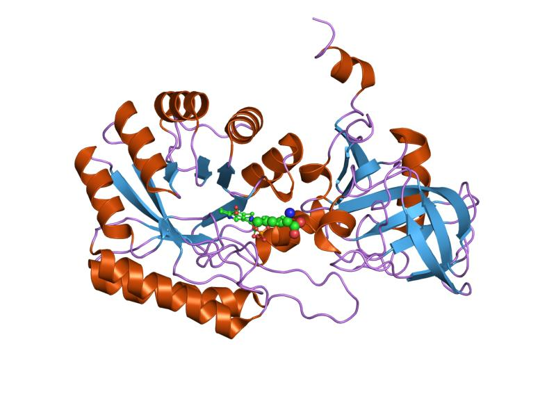 Cartoon representation of the molecular structure of protein registered with 1ko0 code.